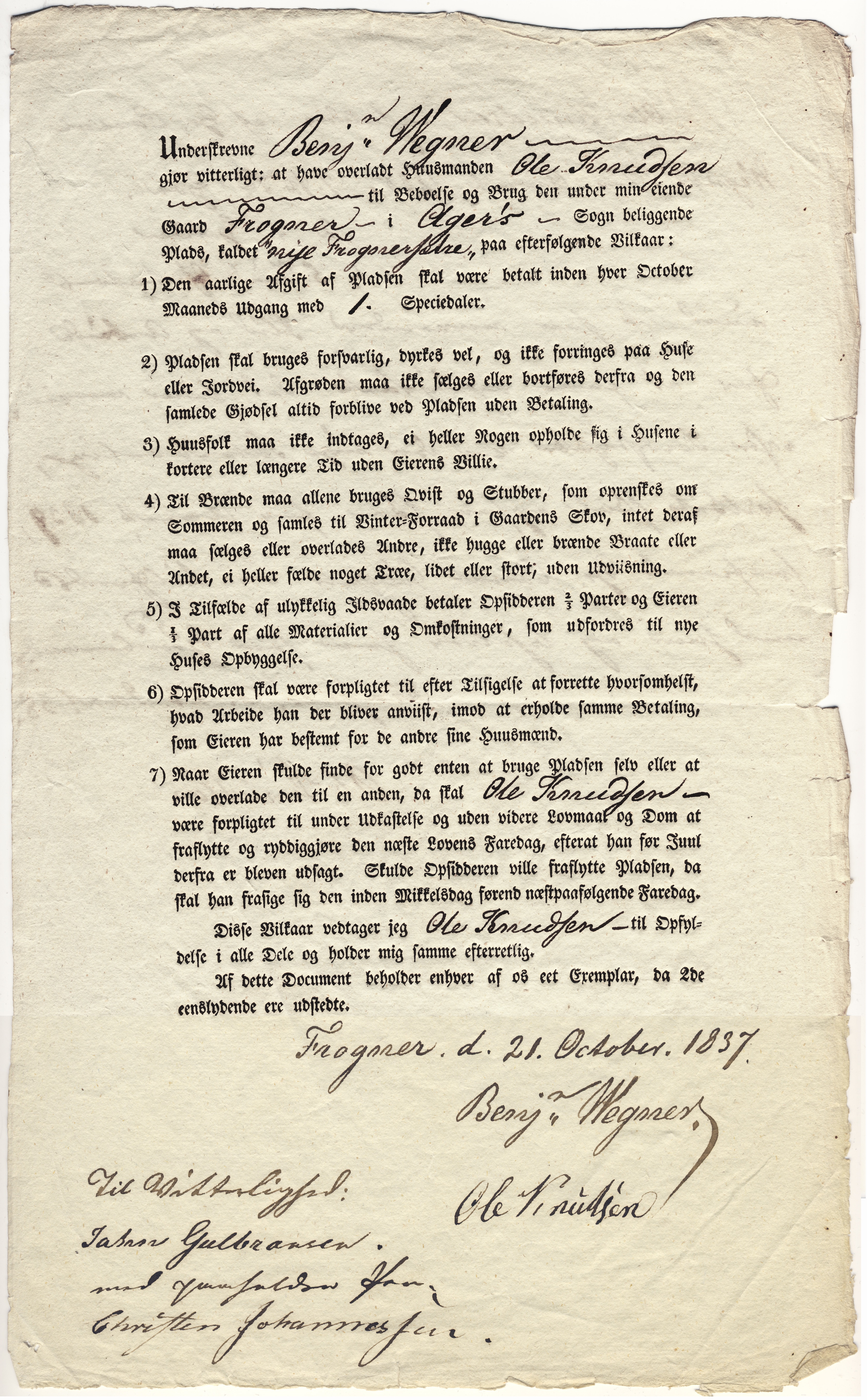 Husmannskontrakt for Frognerseteren inngått mellom godseier Benjamin Wegner til Frogner Hovedgård og husmannen Ole Knudsen i 1837